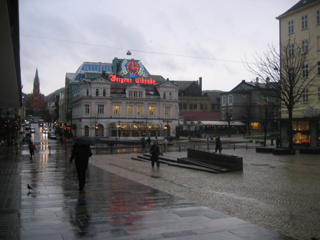 Upper part of Torgallmenningen and part of Ole Bulls plass in Bergen, Norway.